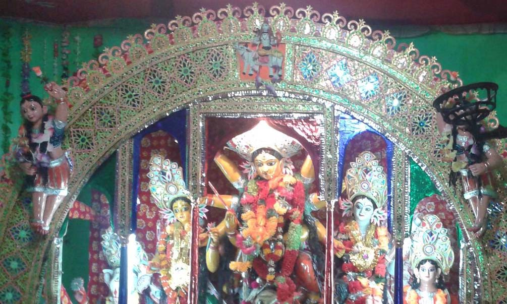 Durga Pooja is celebrated in Navtol,(Sarisabpahi) every year in "Ashwin" since 1840.